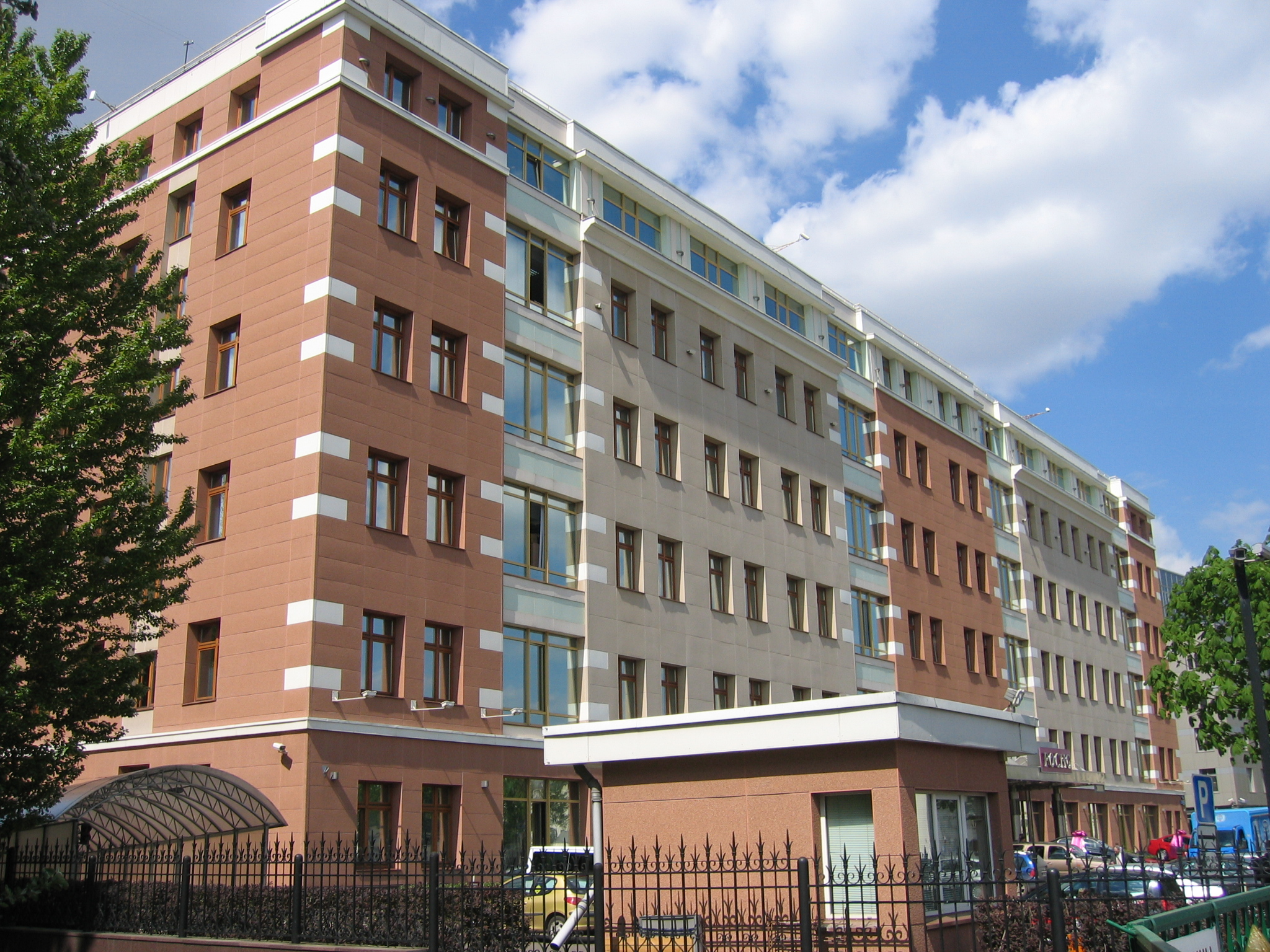 ROSNO head office, Moscow